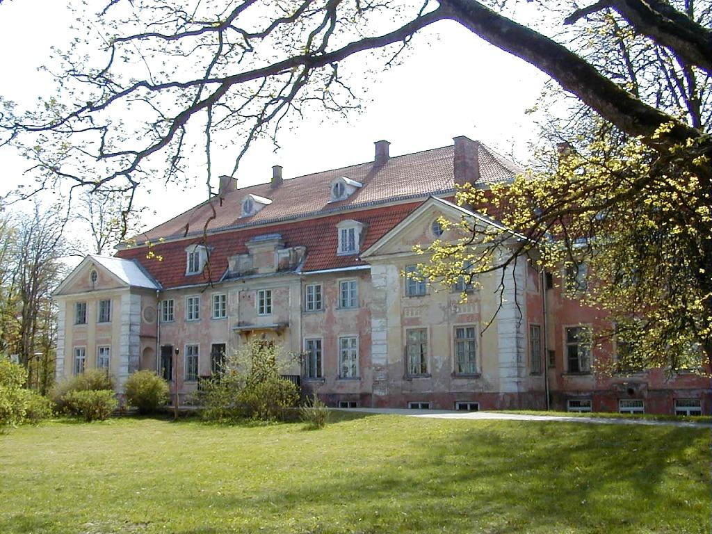 Ozolmuiža ManorLatviešu: Ozolmuižas kungu māja